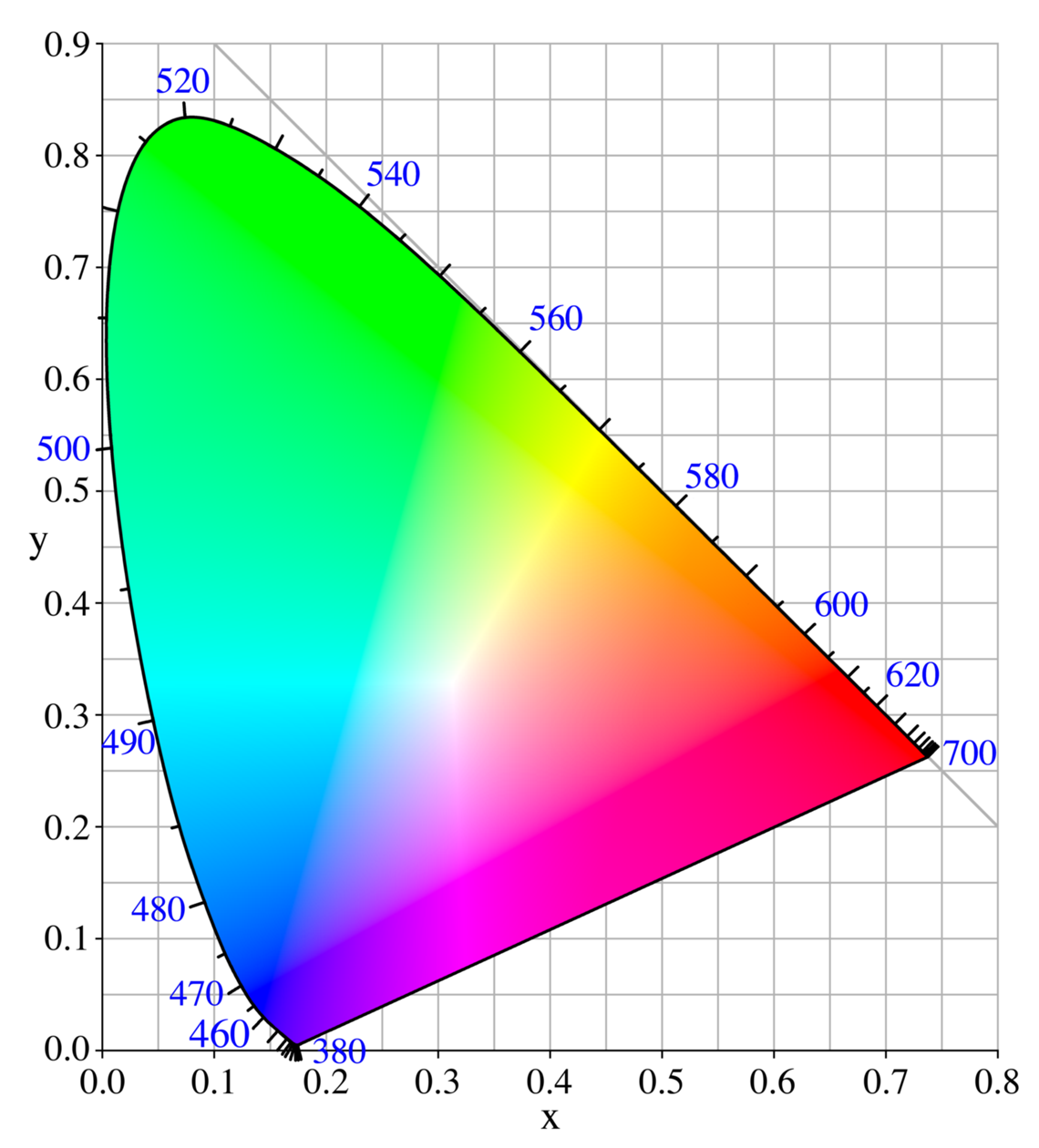 CIE 1931 xy chromaticity diagram. The colors for this diagram were generated using the RGB color space in Adobe photoshop. The transformation from xy chromaticity coordinates was done using the sRGB color space specification on the [X,Y,Z]=[x,y,1-x-y] tristimulus values, then multiplying by a constant so that one of the R, G, or B values was maximized. Assuming that one's monitor converts Adobe photoshop RGB according to the sRGB color space (probably a good assumption) then, within the sRGB gamut, the chromaticities are correct, but are incorrect outside the gamut. (See the sRGB article for a description of the sRGB gamut). The process of maximizing the value of R, G, or B results in a distinct 3-pointed star in the diagram, centered at the D65 white point. This is because, although the chromaticities are correct, the luminosities (brightness values) are not equal across the diagram. If the luminosities were all made equal, then the entire diagram would be rather dark, since pure blue has a low luminosity. Any attempt to equalize luminosity to remove the star will reduce the overall luminosity of the diagram, and the star will not completely disappear until the diagram is very dark. Alternatively, we could blur the colors to get rid of the star, which would give incorrect chromaticities. I have opted for correct chromaticities at maximum brightness, thus the presence of the star.